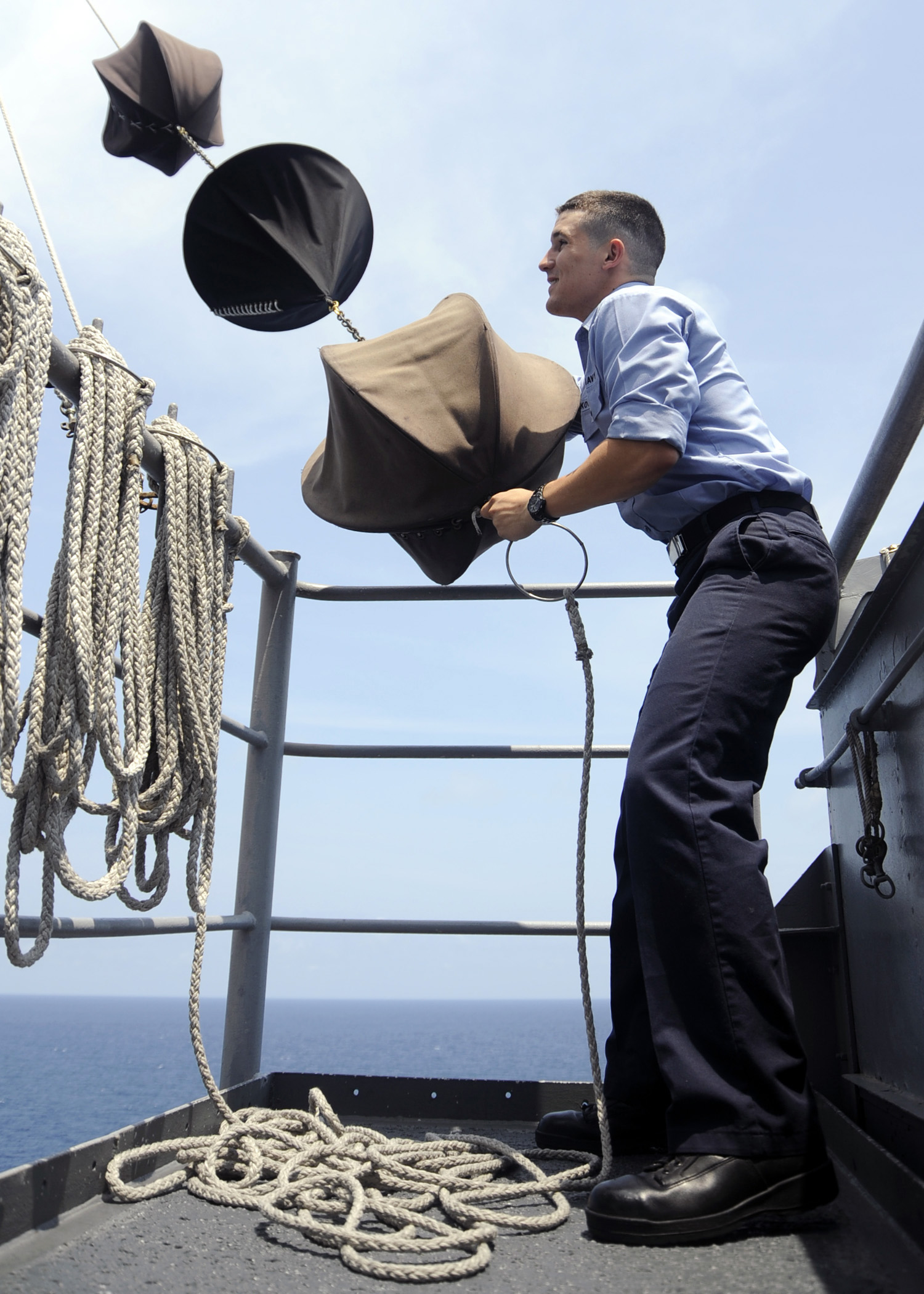 ATLANTIC OCEAN (July 30, 2008) Quartermaster Seaman Andrew Dobrzykowski lowers day shapes Ball, Diamond, Ball signaling the end of restricted maneuvering aboard the Nimitz-class aircraft carrier USS Theodore Roosevelt (CVN 71). The Theodore Roosevelt Carrier Strike Group is participating in Joint Task Force Exercise "Operation Brimstone" off the Atlantic Coast.